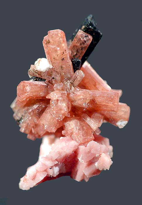 Nenadkevichite, Aegirine, Rhodochrosite Locality: Poudrette quarry (Demix quarry; Uni-Mix quarry; Desourdy quarry), Mont Saint-Hilaire, Rouville RCM, Montérégie, Québec, Canada (Locality at ) Superb rosette of crystals perched on rhodochrosite! 1.3 x 0.9 x 0.8 cm